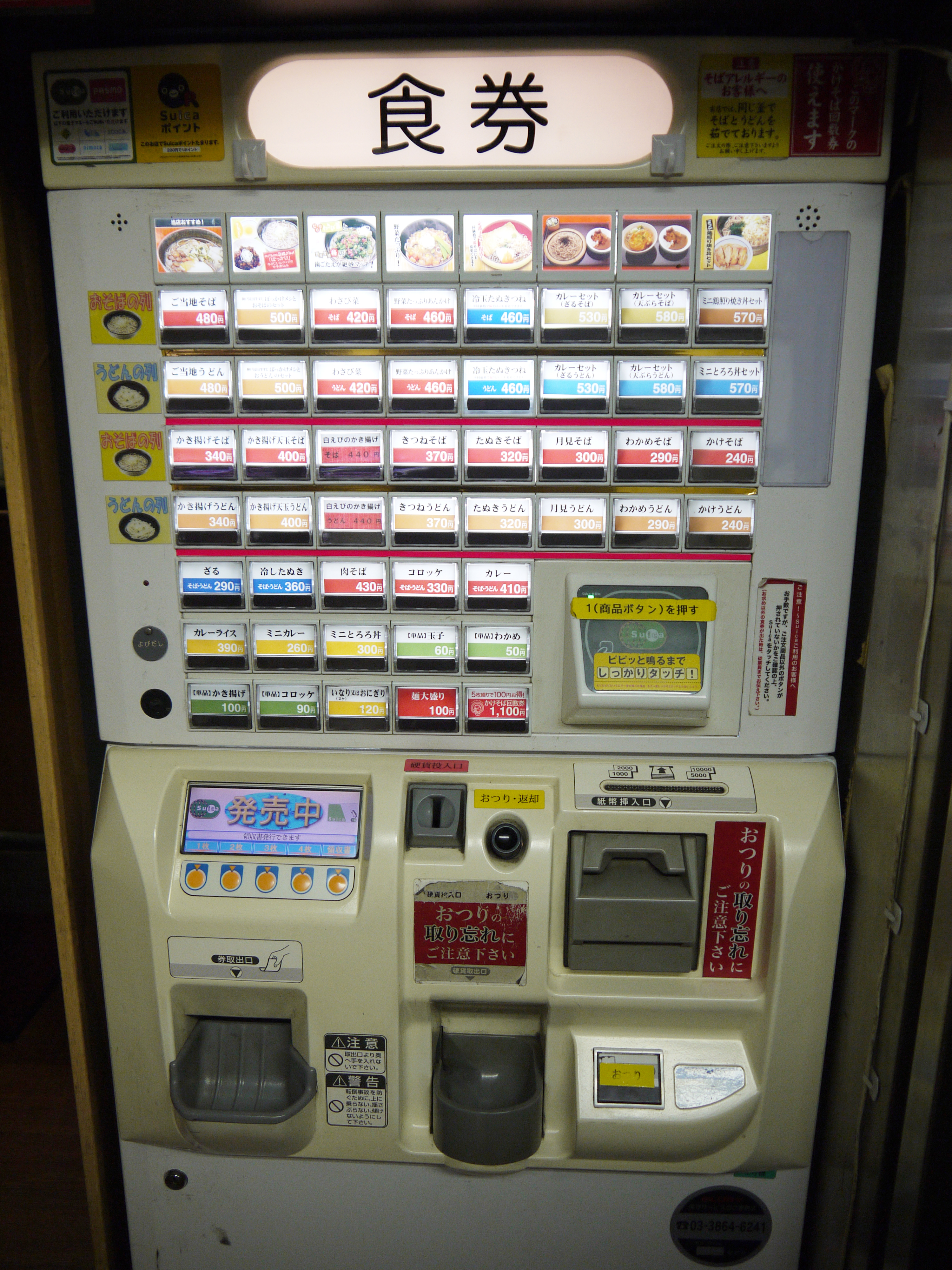 Japanese Quick serving soba noodle stand Ikebukuro